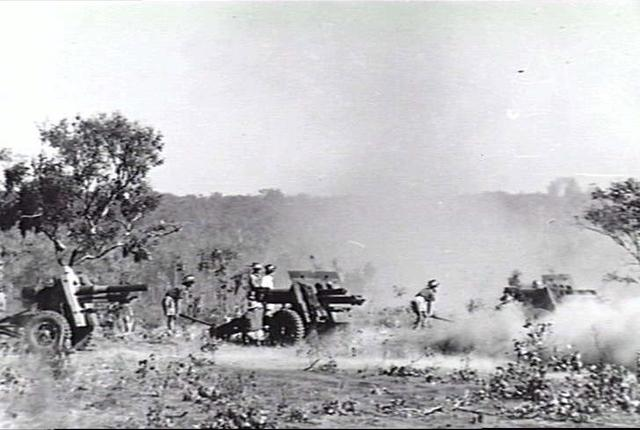 25-pounder guns from the Australian 2/11th Field Regiment at practice in the Darwin area, 28 June 1943